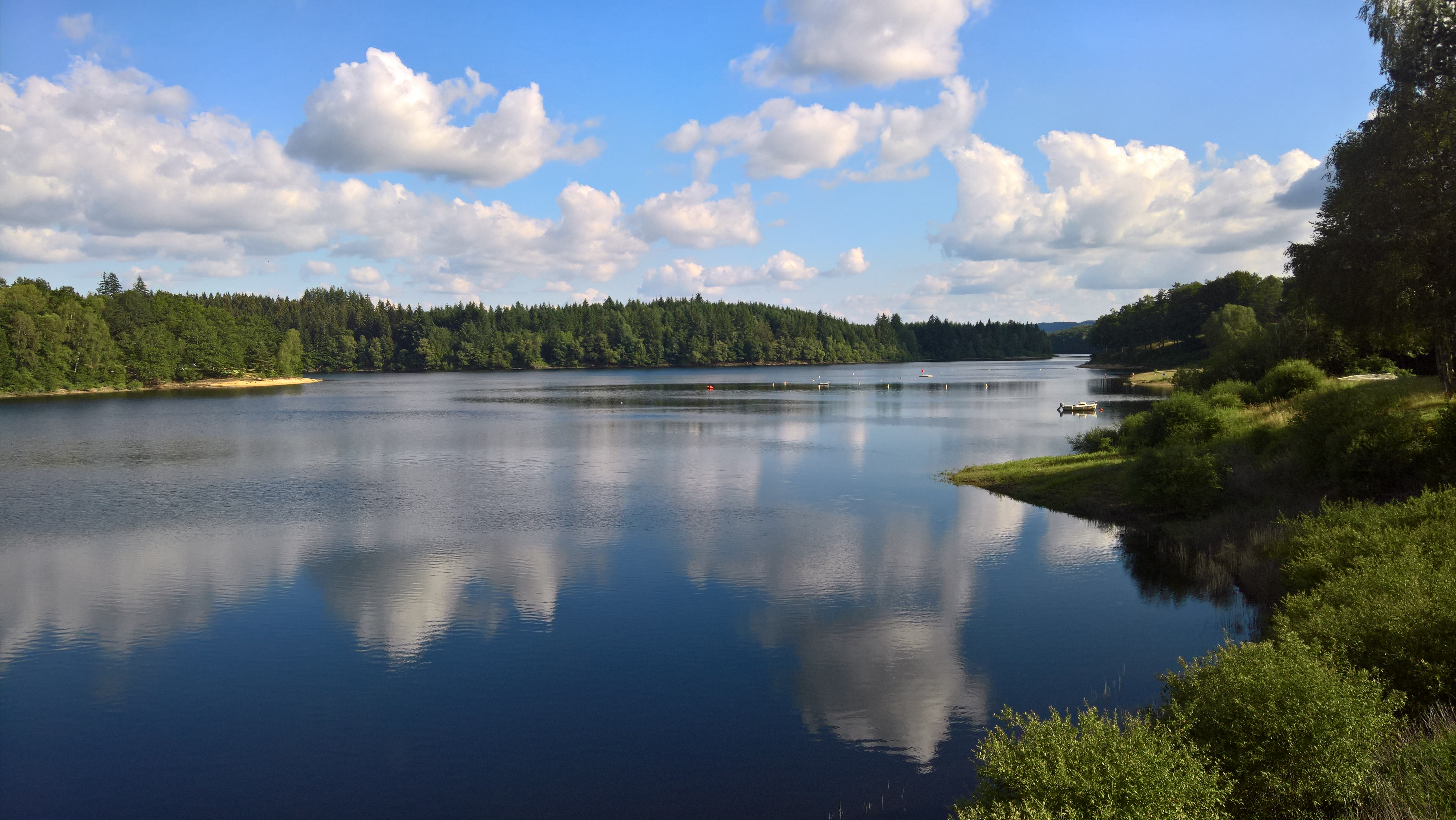 Lake at Viam, the result of a dam over the Vezere river